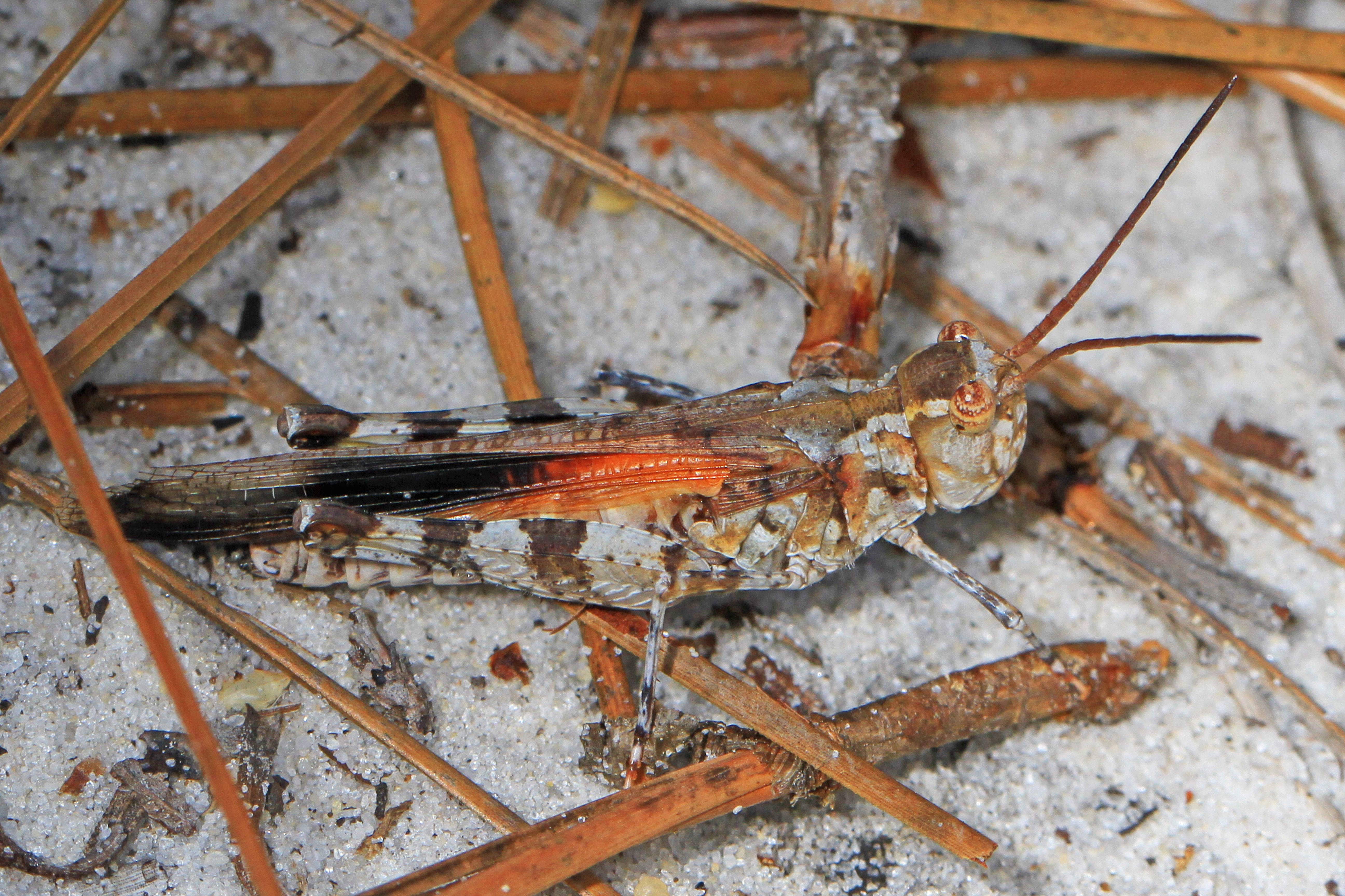 Longhorn Bandwing Grasshopper - Psinidia fenestralis, Green Swamp, Supply, North Carolina.